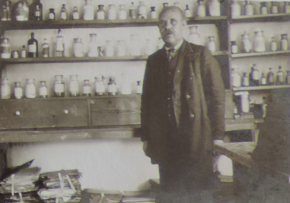 A photo album by doctors, paramedics and midwives at the Kyustendil Sanitary region in 1936. It was compiled by Dr. A. Ogoyski. Handed to His Royal Highness Simeon Knyaz Tarnovski.